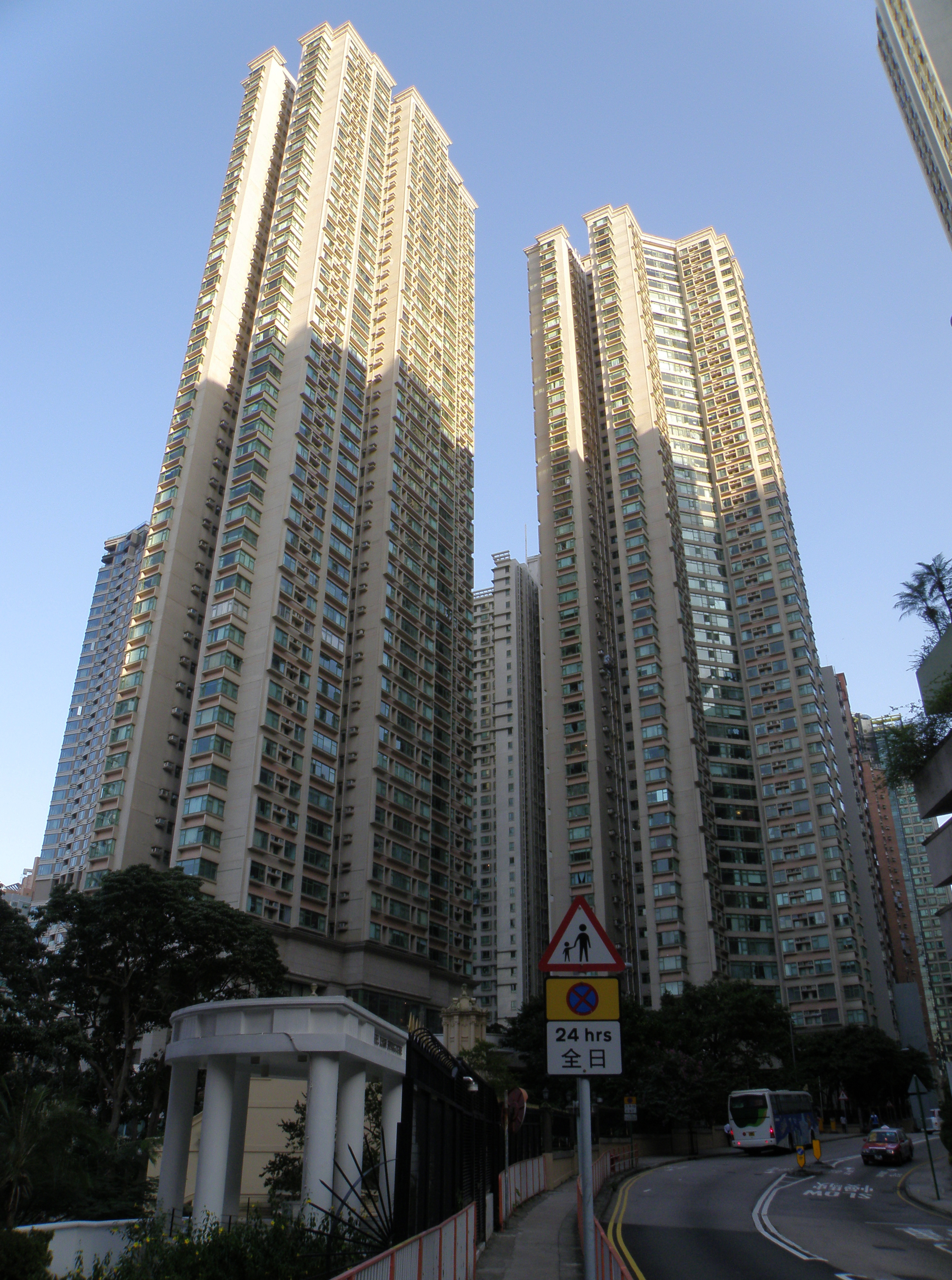 Robinson Place in Mid-levels West, Hong Kong.